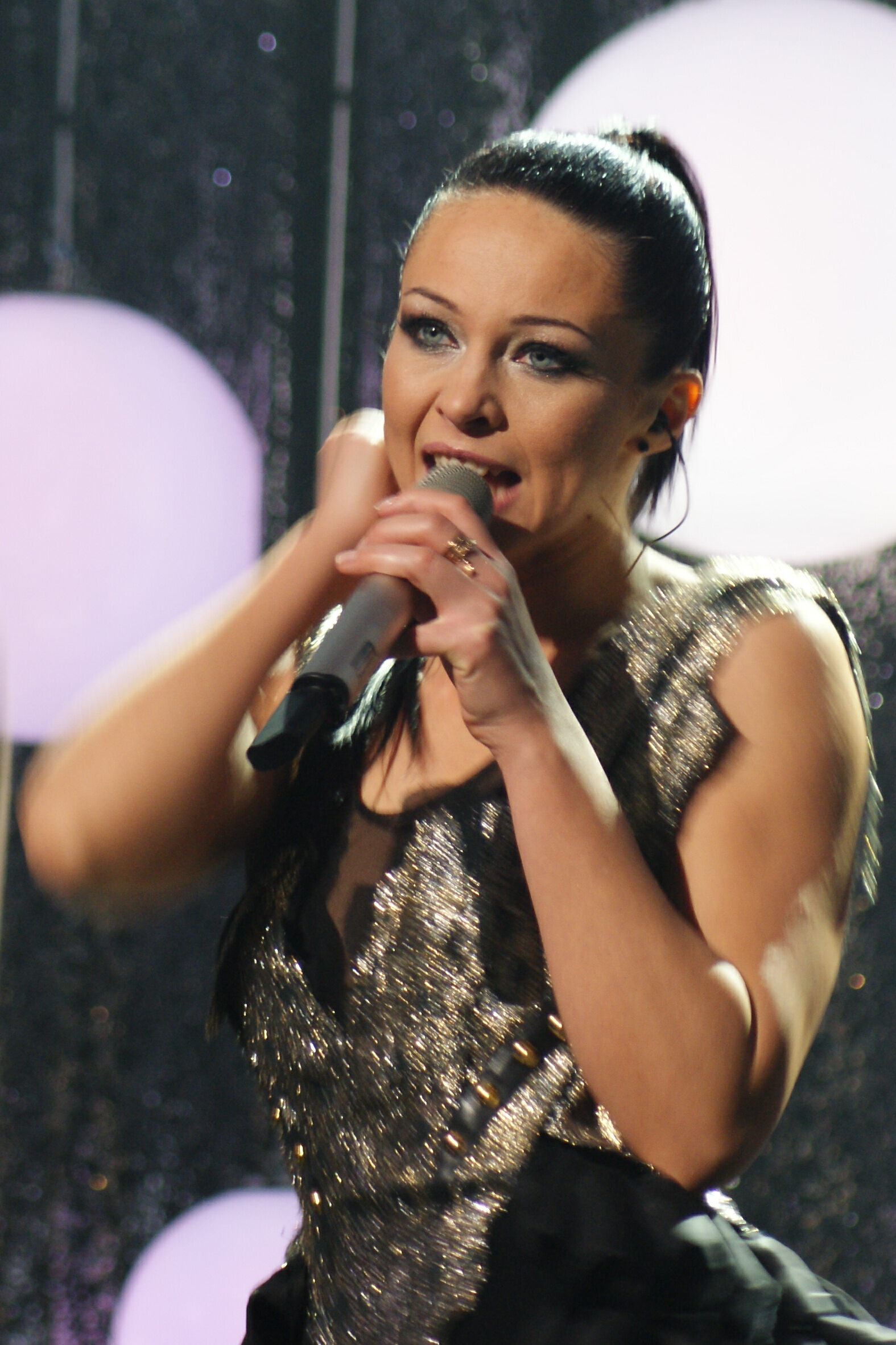 Magdalena Tul podczas Krajowych Eliminacji do Konkursu Piosenki Eurowizji, 14 lutego 2011